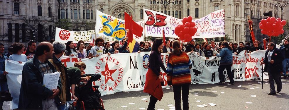 Photo: Soman